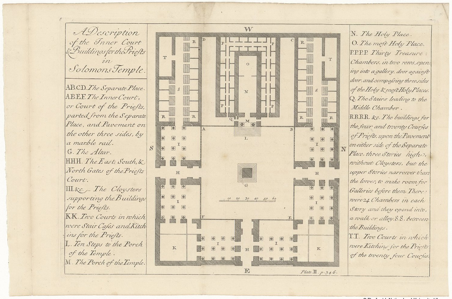 Newton, Isaac, Sir, 1642-1727 The chronology of ancient kingdoms, amended : To which is prefix'd, a short chronicle from the first memory of things in Europe, to the conquest of Persia by Alexander the Great / by Sir Isaac Newton. London : Printed for J. Tonson, J. Osborn and T. Longman, 1728.